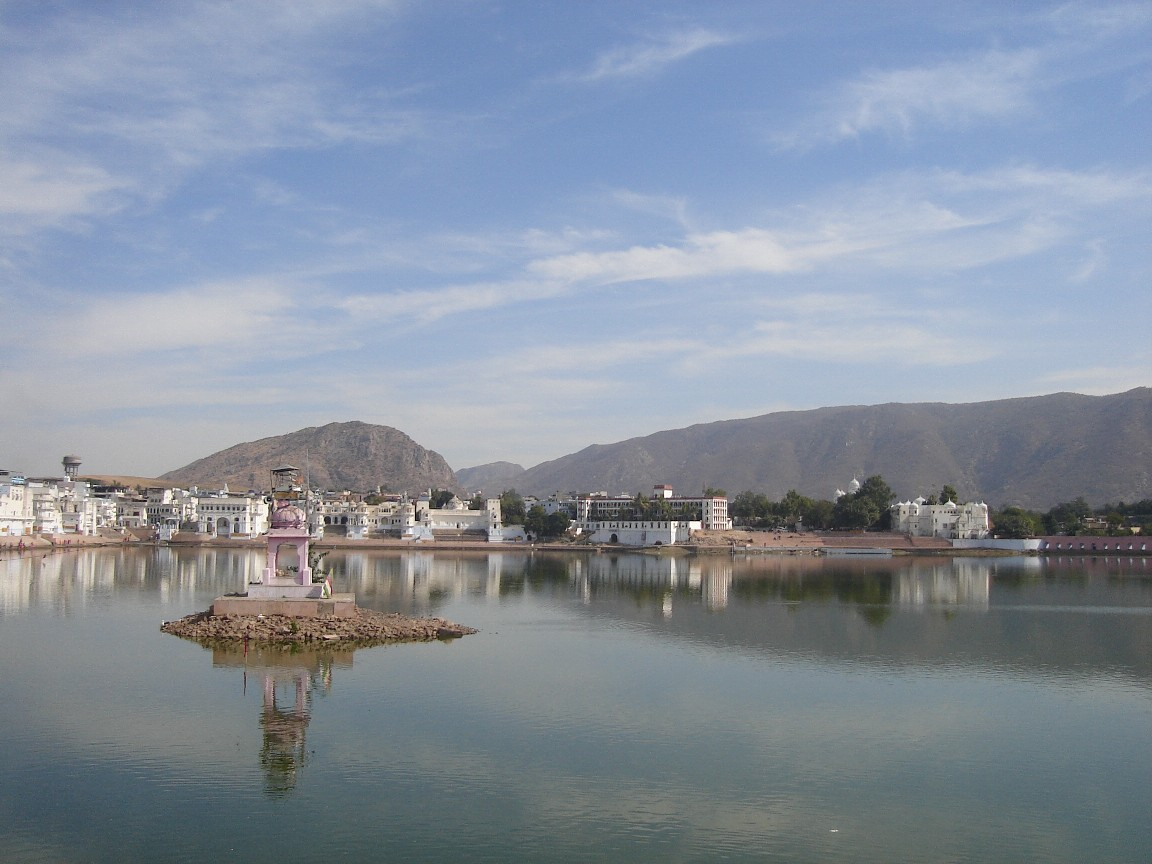 The Pushkar Lake. Ajmer. Pushkar Lake.